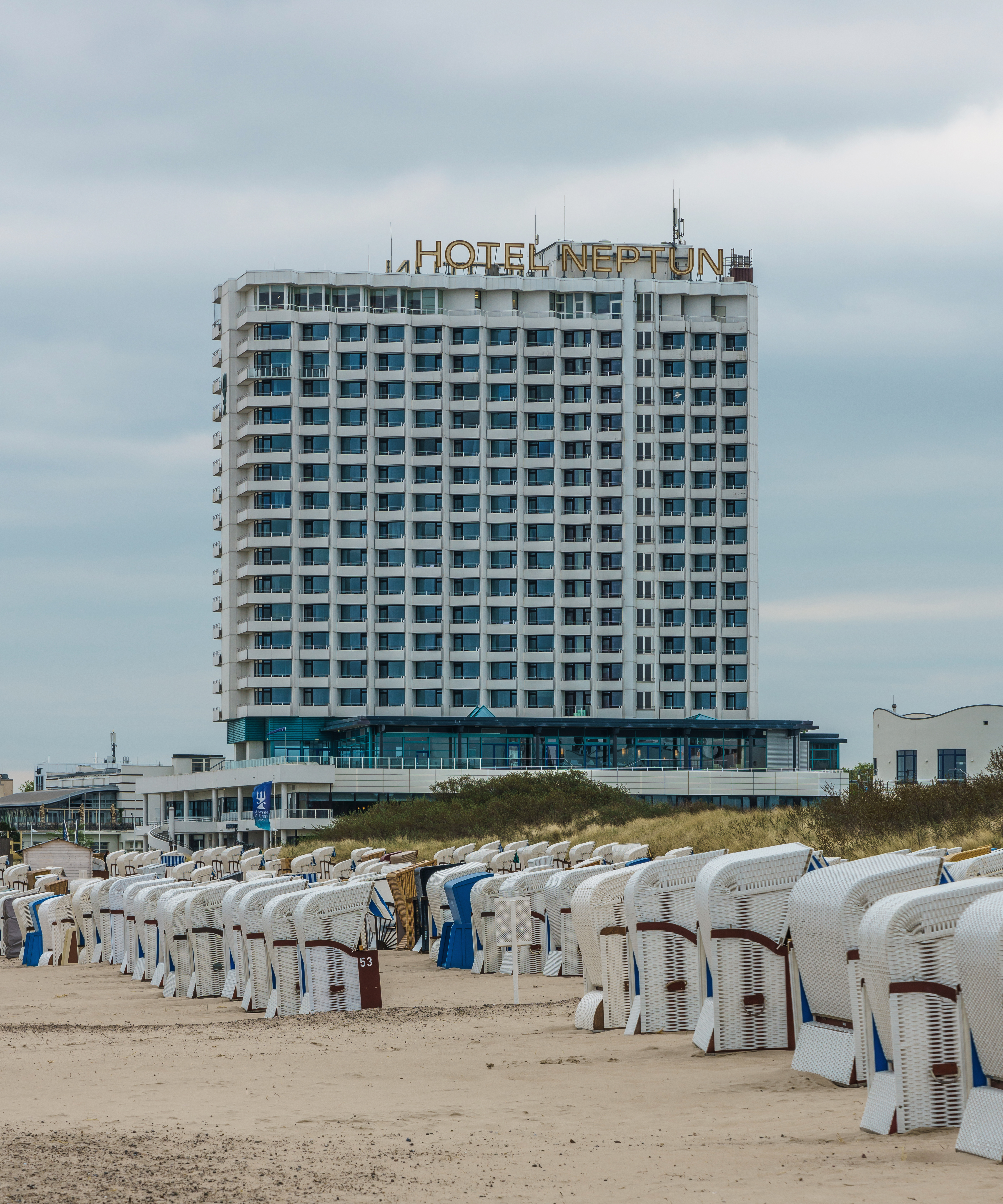 Hotel Neptun in Warnemünde, Rostock, Germany